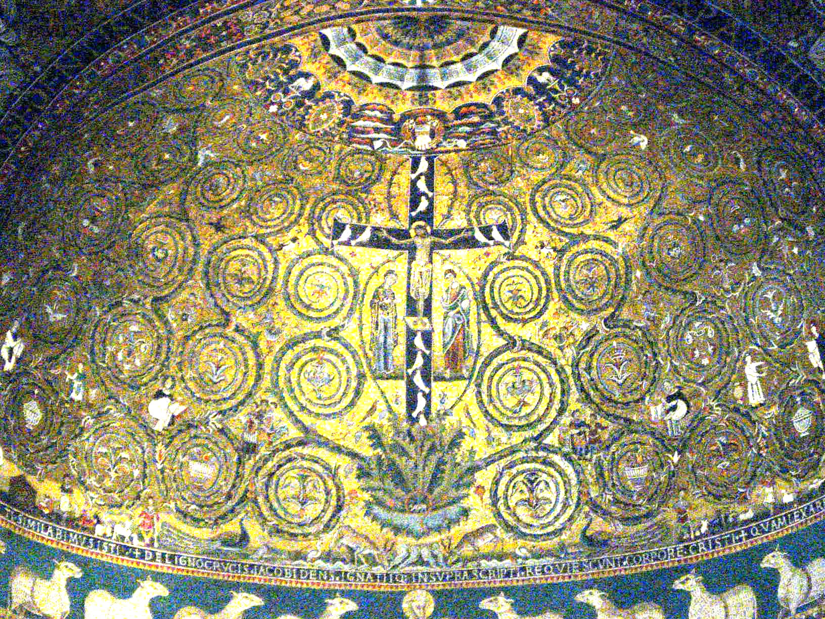 Tree of Holy Cross - mosaic (St Clemente, Rome)